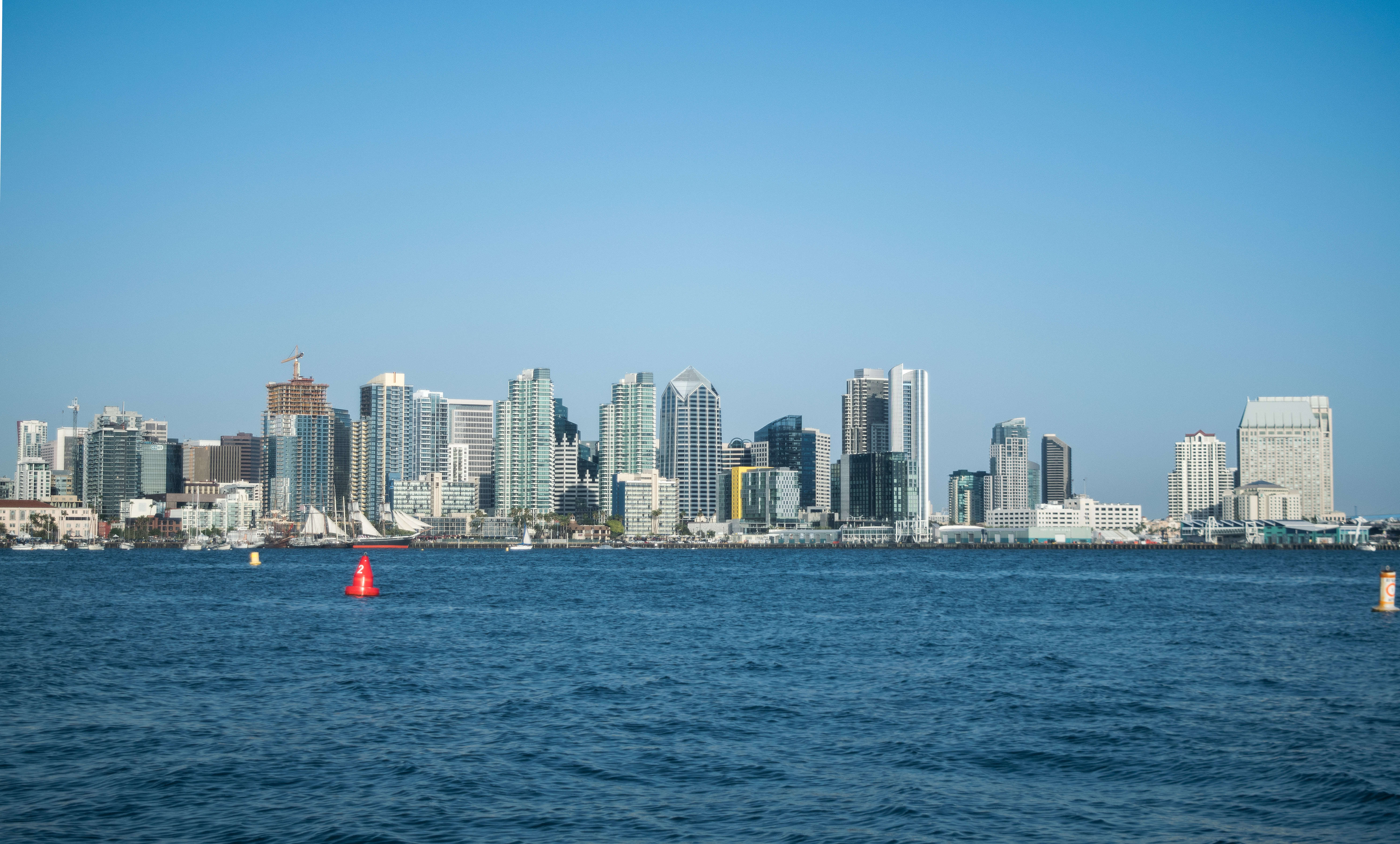 San Diego skyline 2018